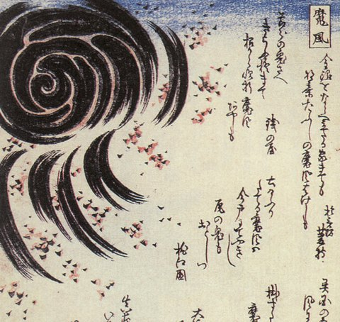 "Mafū" (魔風, Devilish wind) from the Kyōka Hyaku Monogatari (狂歌百物語)